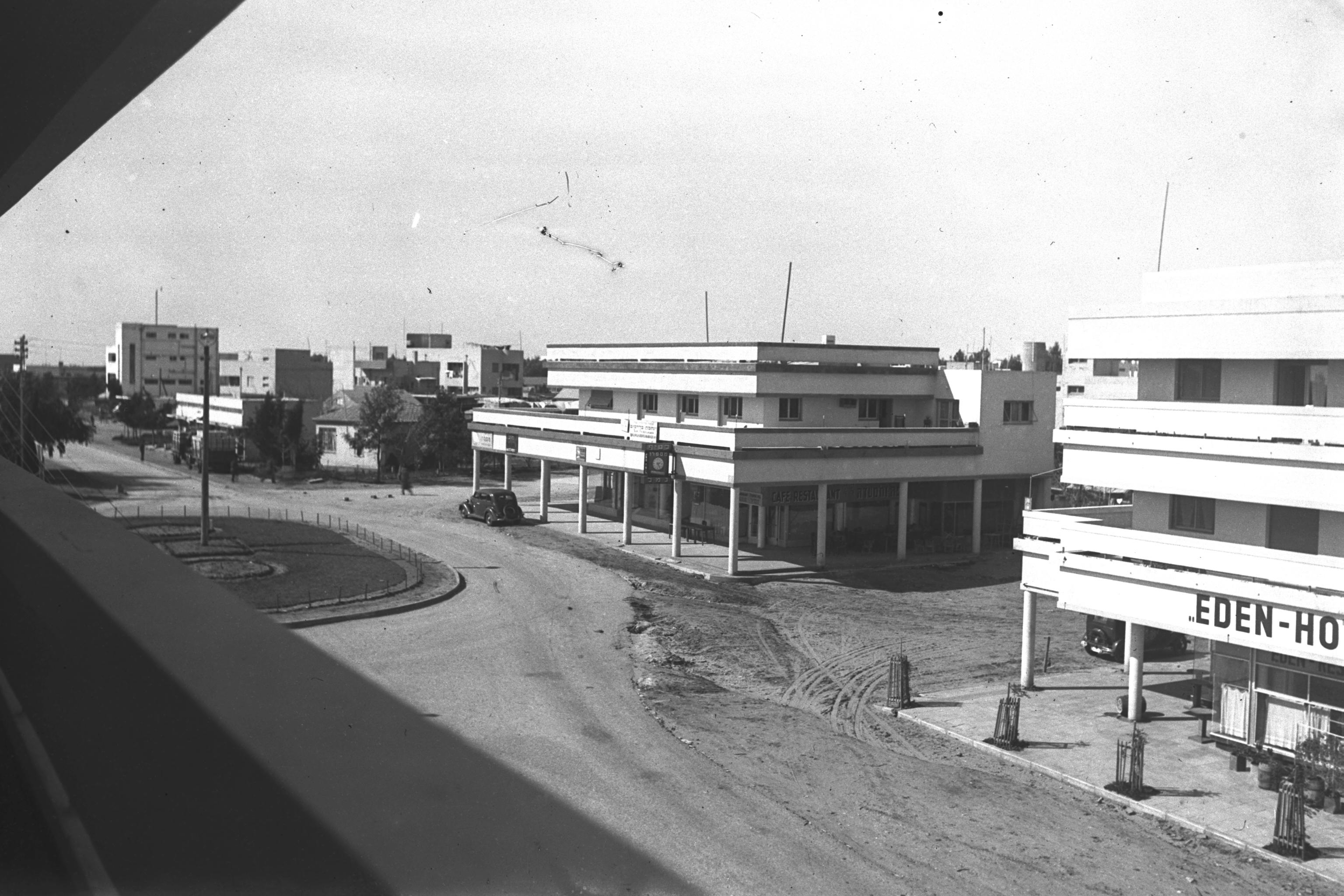 VIEW OF ZION SQUARE IN NETANYA. כיכר ציון בנתניה.